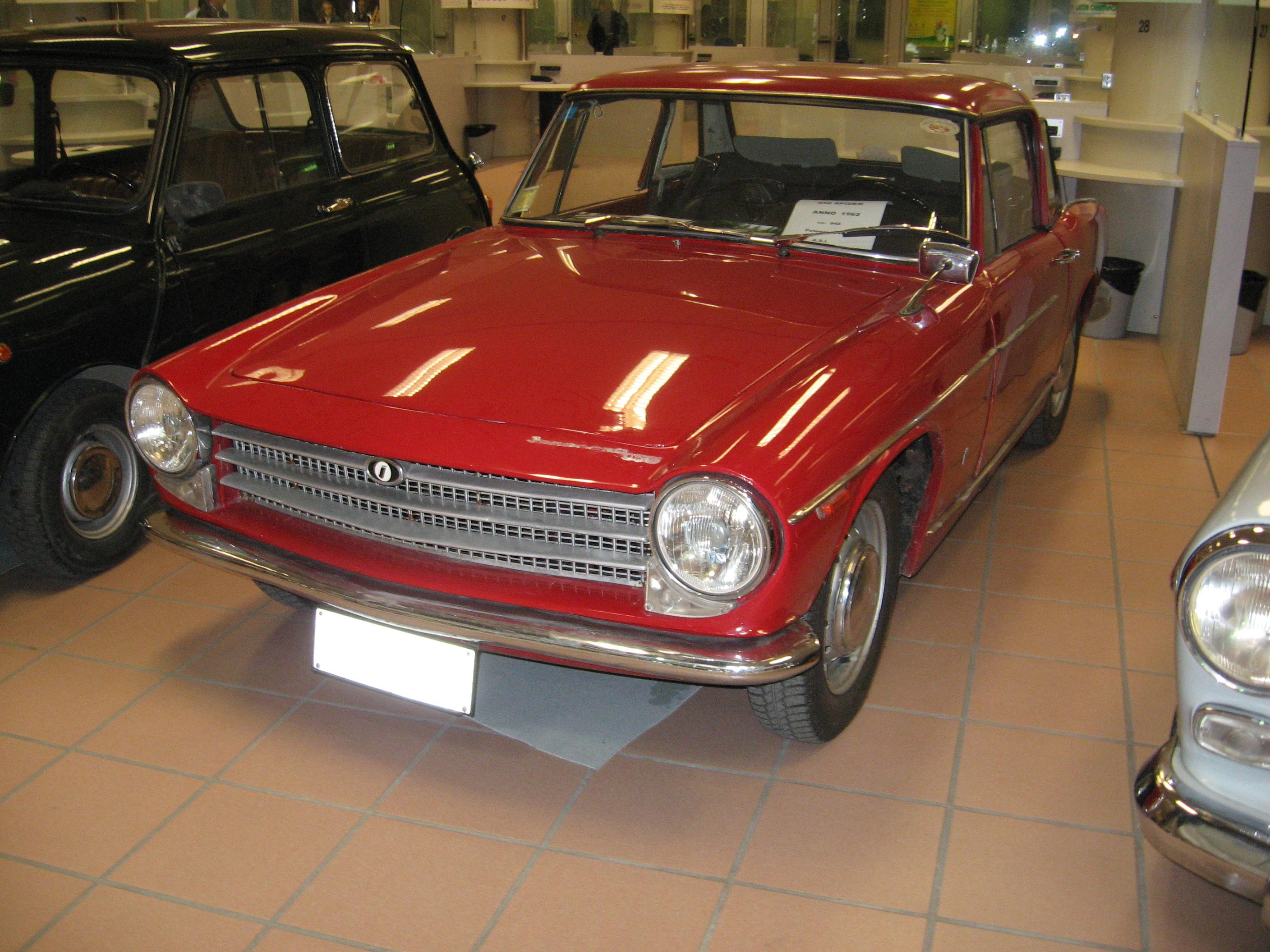 Subject: Innocenti 950 S Spider Author: Luc106 Date: 18 march 2007 City/Country: Forlì (Italy) Event: Old Time Show I release all rights in the public domain.